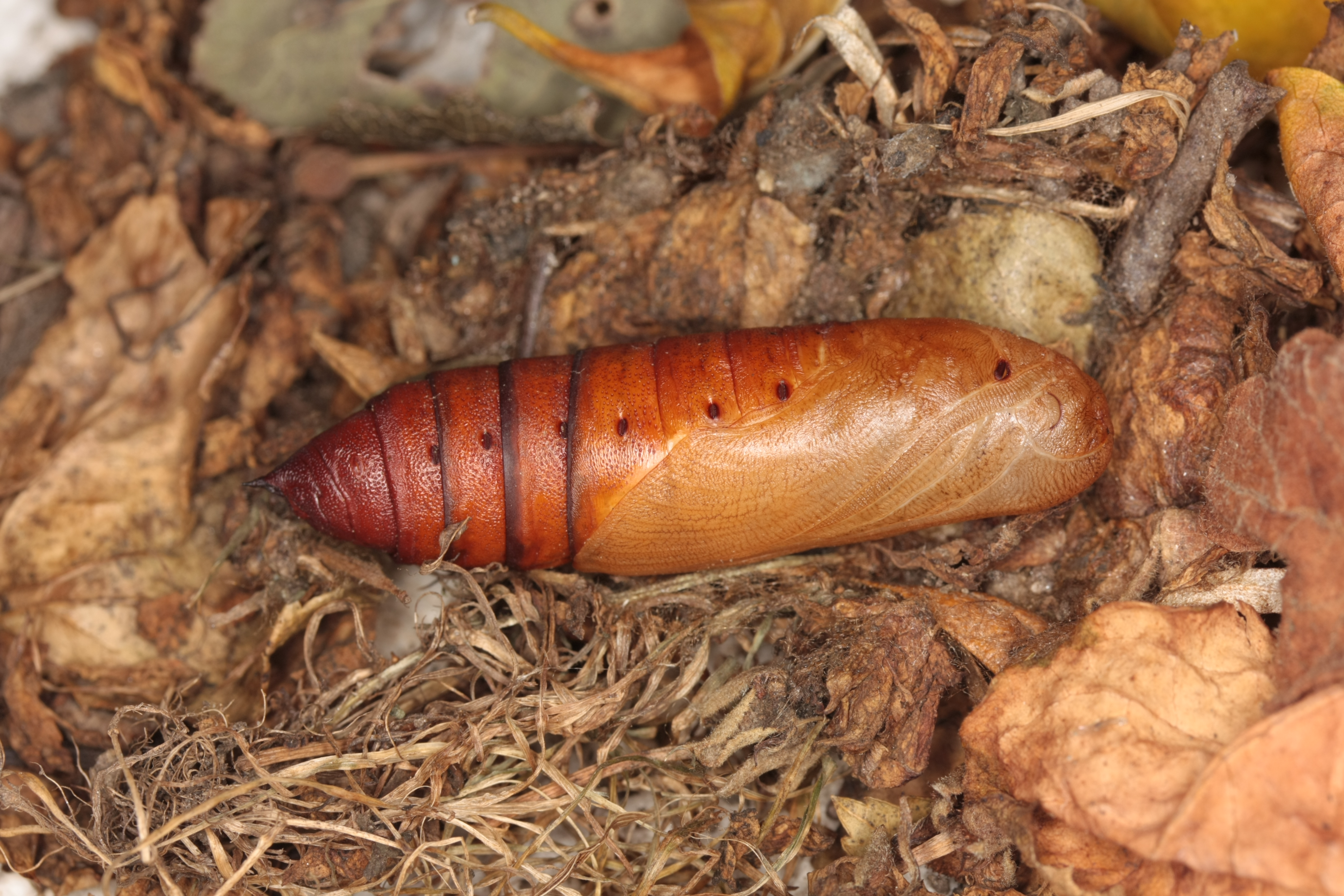 Please report references to leokuzmitsinode.at.